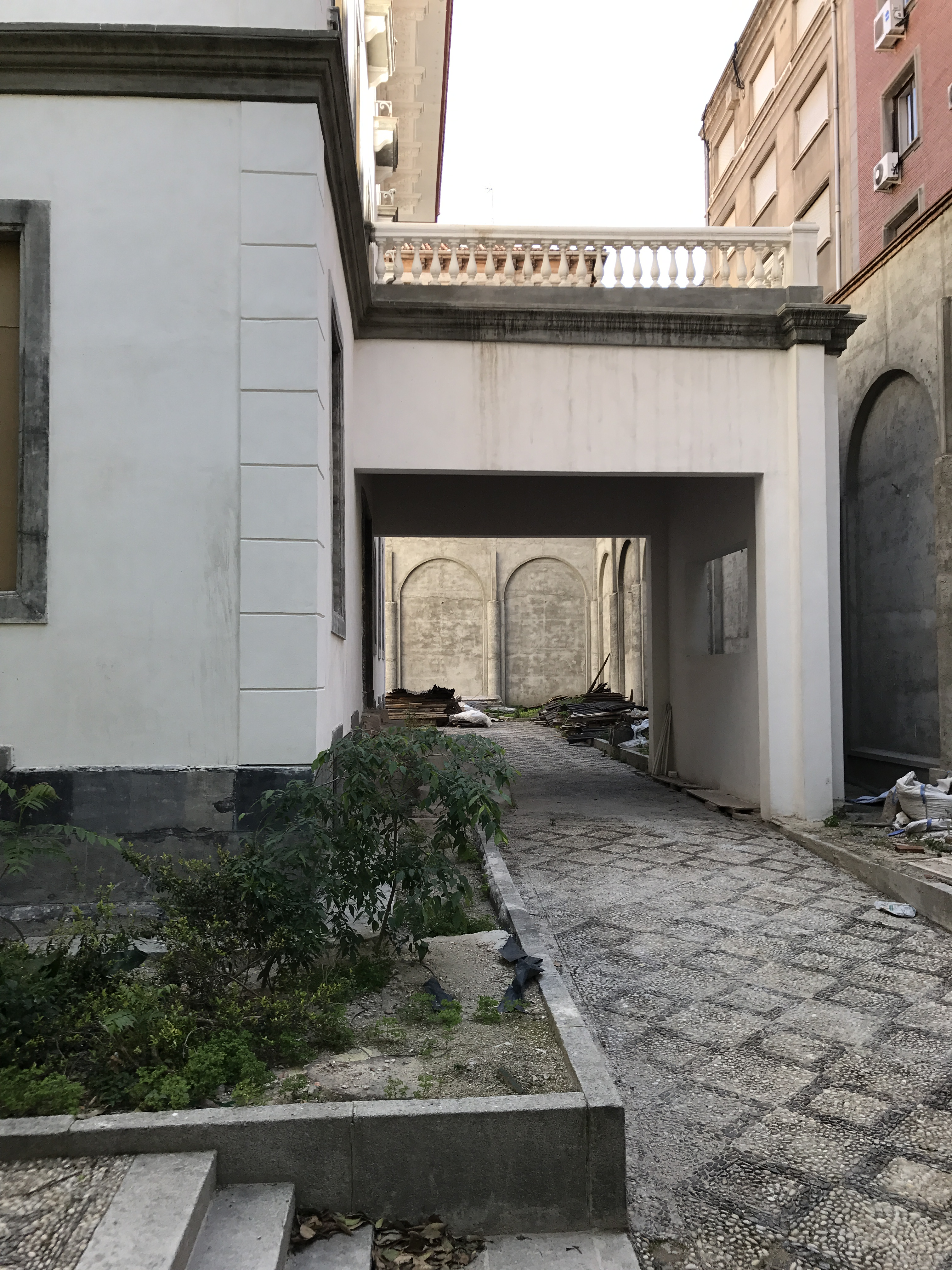 Mansion at 18 Calle de Villanueva (street) in Salamanca district in Madrid (Spain). Promoted by the Marquis of Salamananca as the standard residence for the Ensanche. It was designed by Cristóbal Lecumberri and buit between 1865 and 1870.